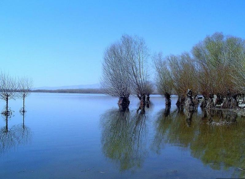 Lake Işıklı near Çivril, Denizli Province, Turkey